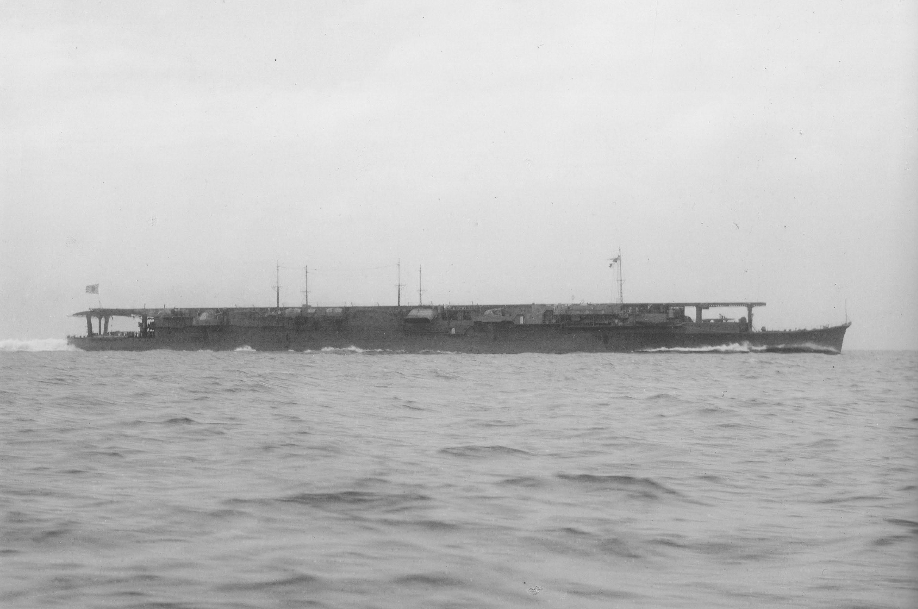 Imperial Japanese Navy aircraft carrier Shōhō undergoing trials off Tateyama upon her delivery to the Navy after conversion from a submarine tender to a light aircraft carrier.